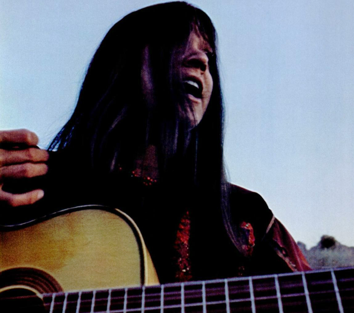 Photo of Melanie Safka performing.